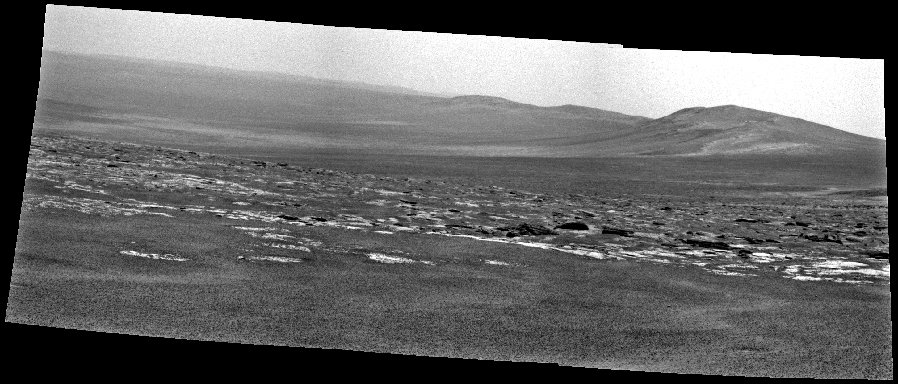 NASA's Mars Exploration Rover Opportunity used its panoramic camera (Pancam) to capture this view of a portion of Endeavour crater's rim after a drive during the rover's 2,676th Martian day, or sol, of working on Mars (Aug. 4, 2011). The drive covered 396 feet (120.7 meters) and put the rover with about that much distance to go before reaching the chosen arrival site at the rim, called "Spirit Point." Endeavour crater has been the rover team's destination for Opportunity since the rover finished exploring Victoria crater in August 2008. Endeavour, with a diameter of about 14 miles (22 kilometers), offers access to older geological deposits than any Opportunity has seen before. This view looks toward a portion of the rim south of Spirit Point, including terrain that Opportunity may explore in the future.